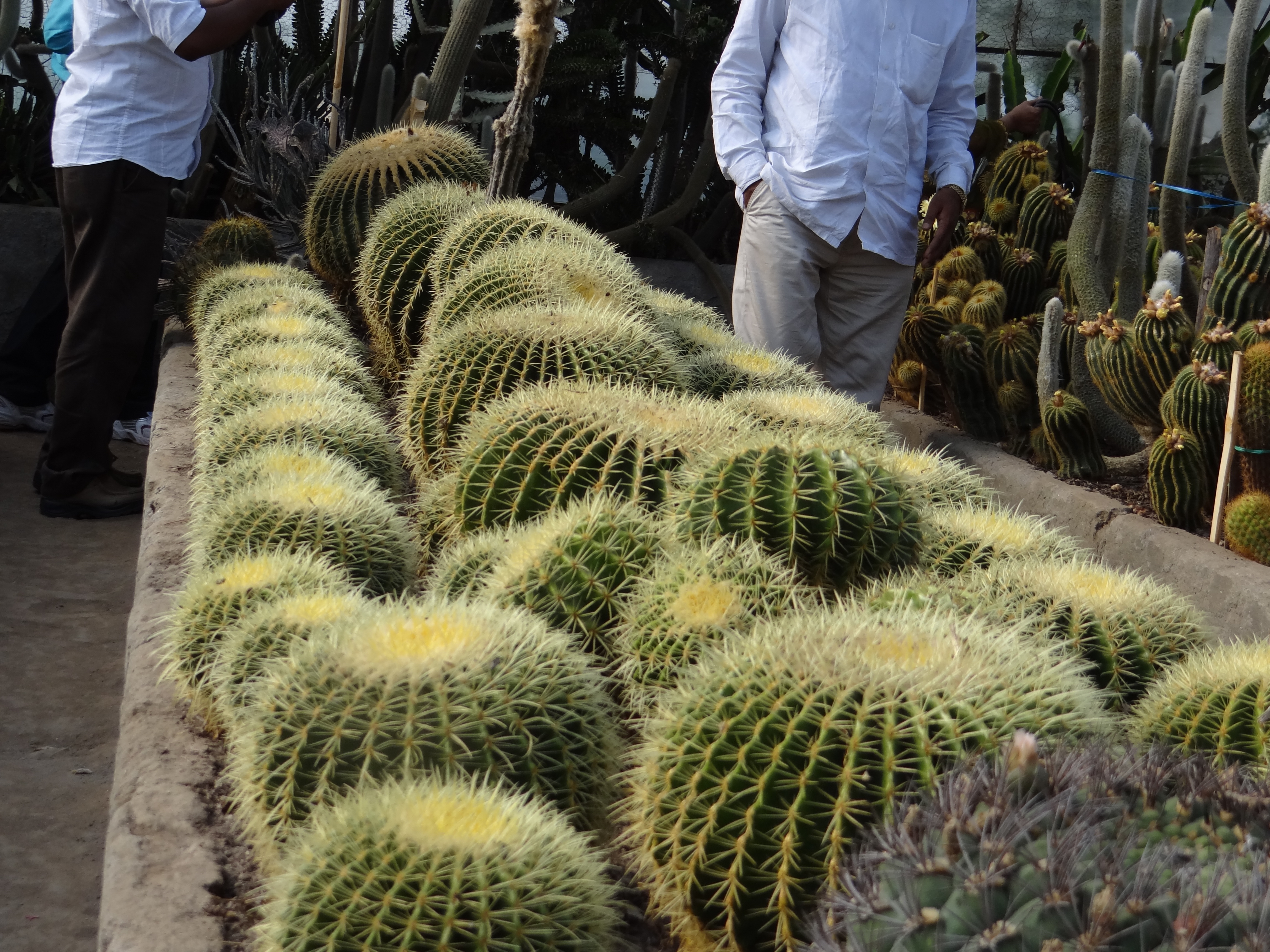 Cactus at a greenhouse in Darjeeling